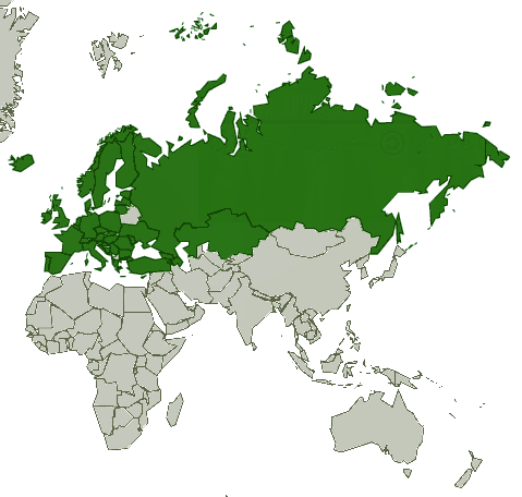 European Higher Education Area